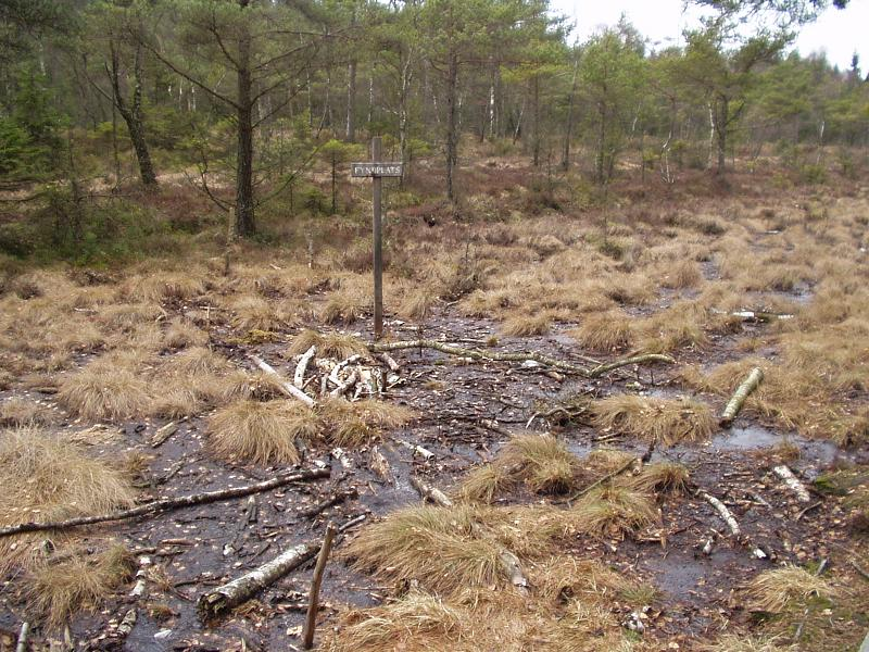 Bockstens Mosse, Halland, Sweden.